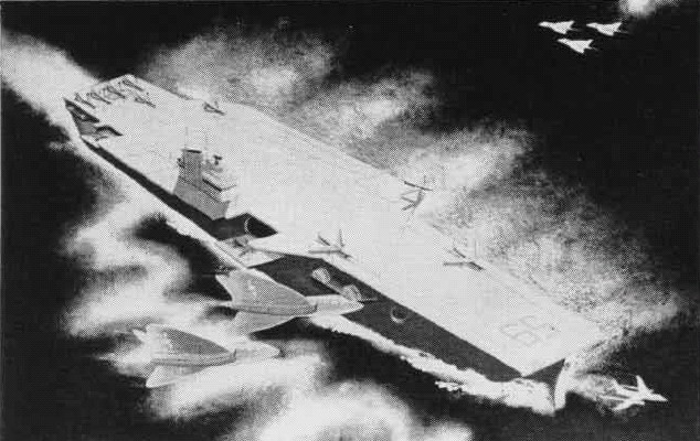 Artist's impression of the new Forrestal-class aircraft carriers of the U.S. Navy as it appeared in the U.S. Naval Aviation News of January 1954.